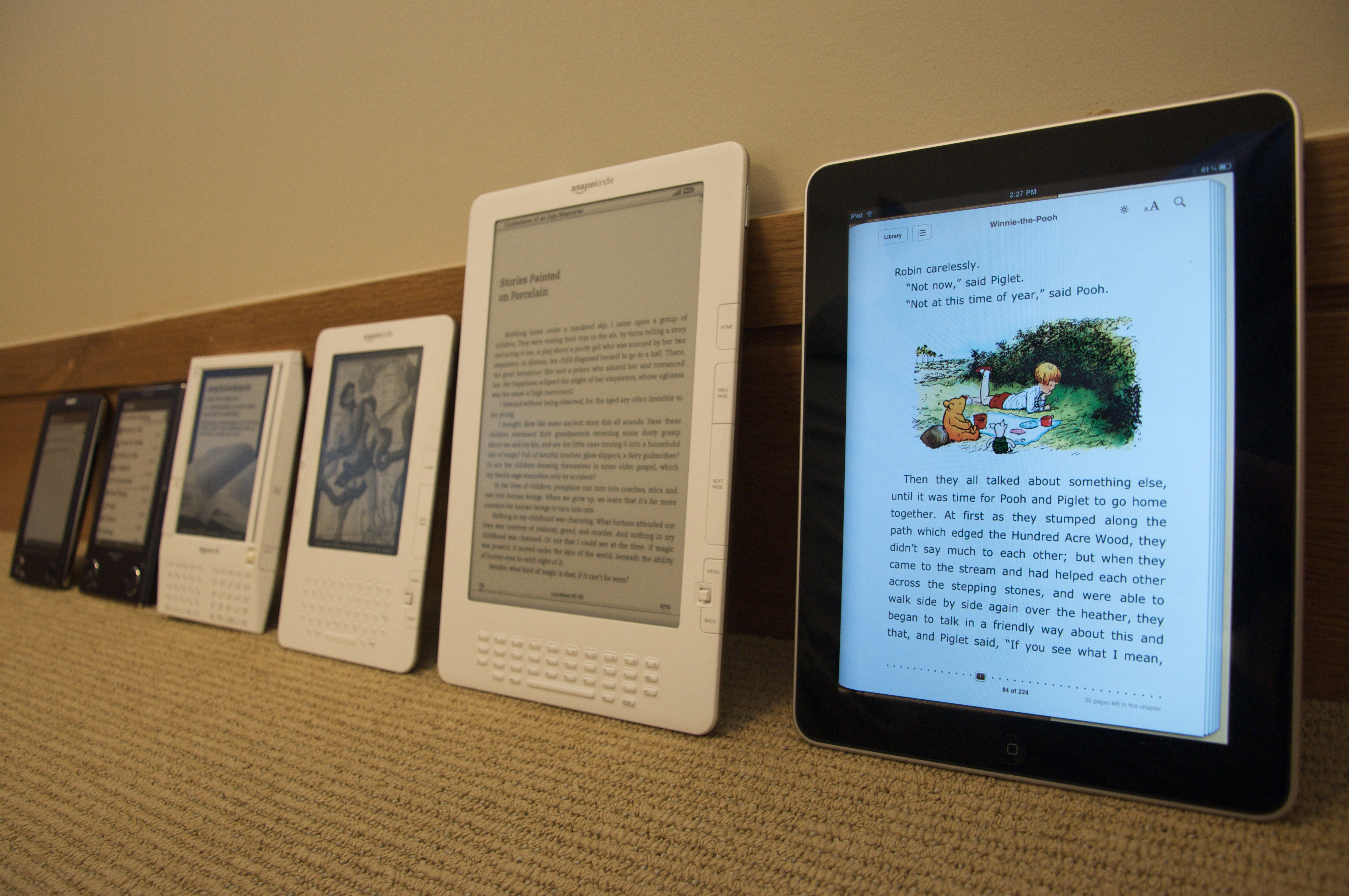 various e-book readers. From right to left iPad (Apple、2010) kindle DX (Amazon、2009) kindle 2 (Amazon、2009) kindle 1 (Amazon、2007) PRS-505 (Sony、2007) PRS-500 (Sony、2006).